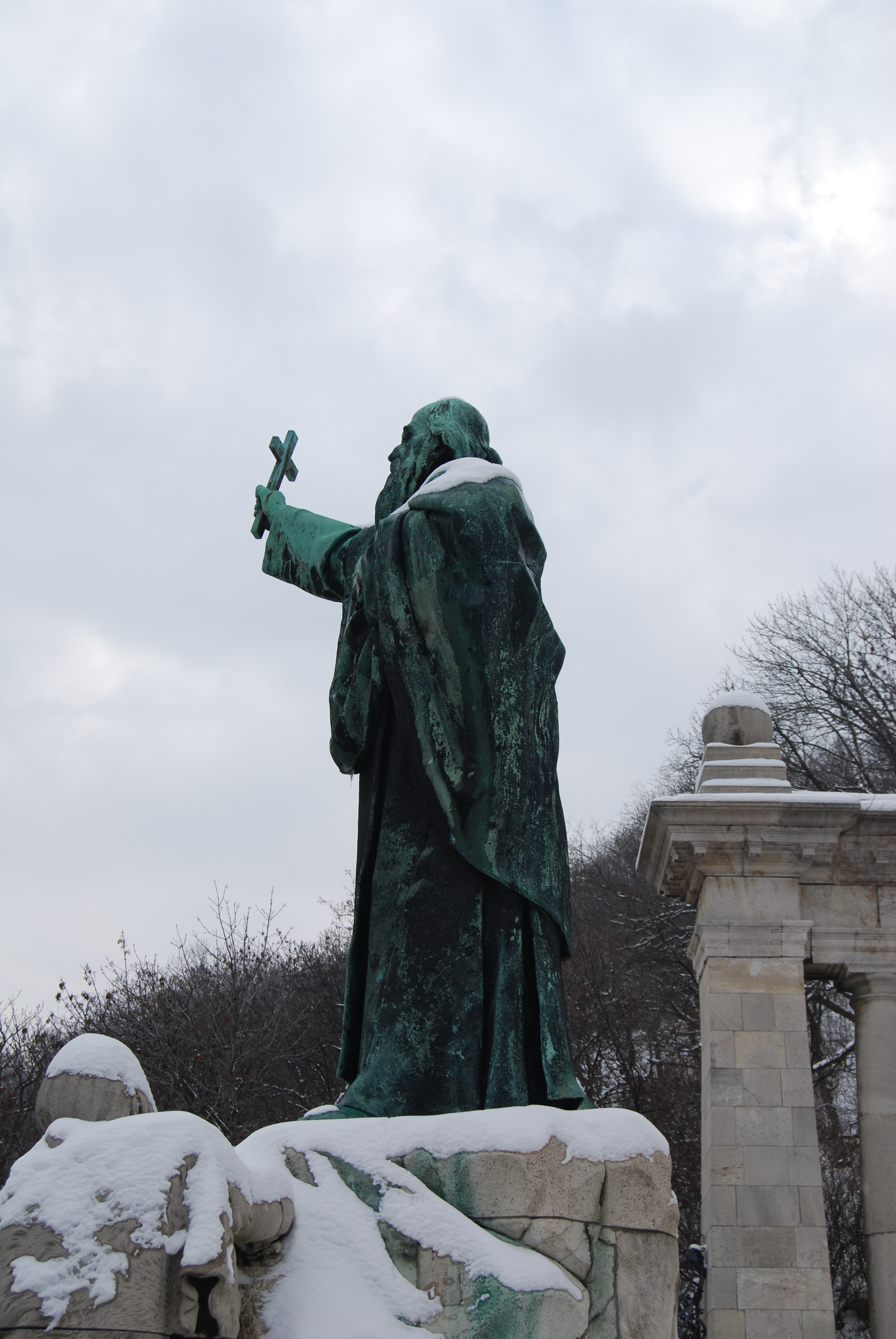 Statue of Gerard Sagredo in Budapest, Hungary